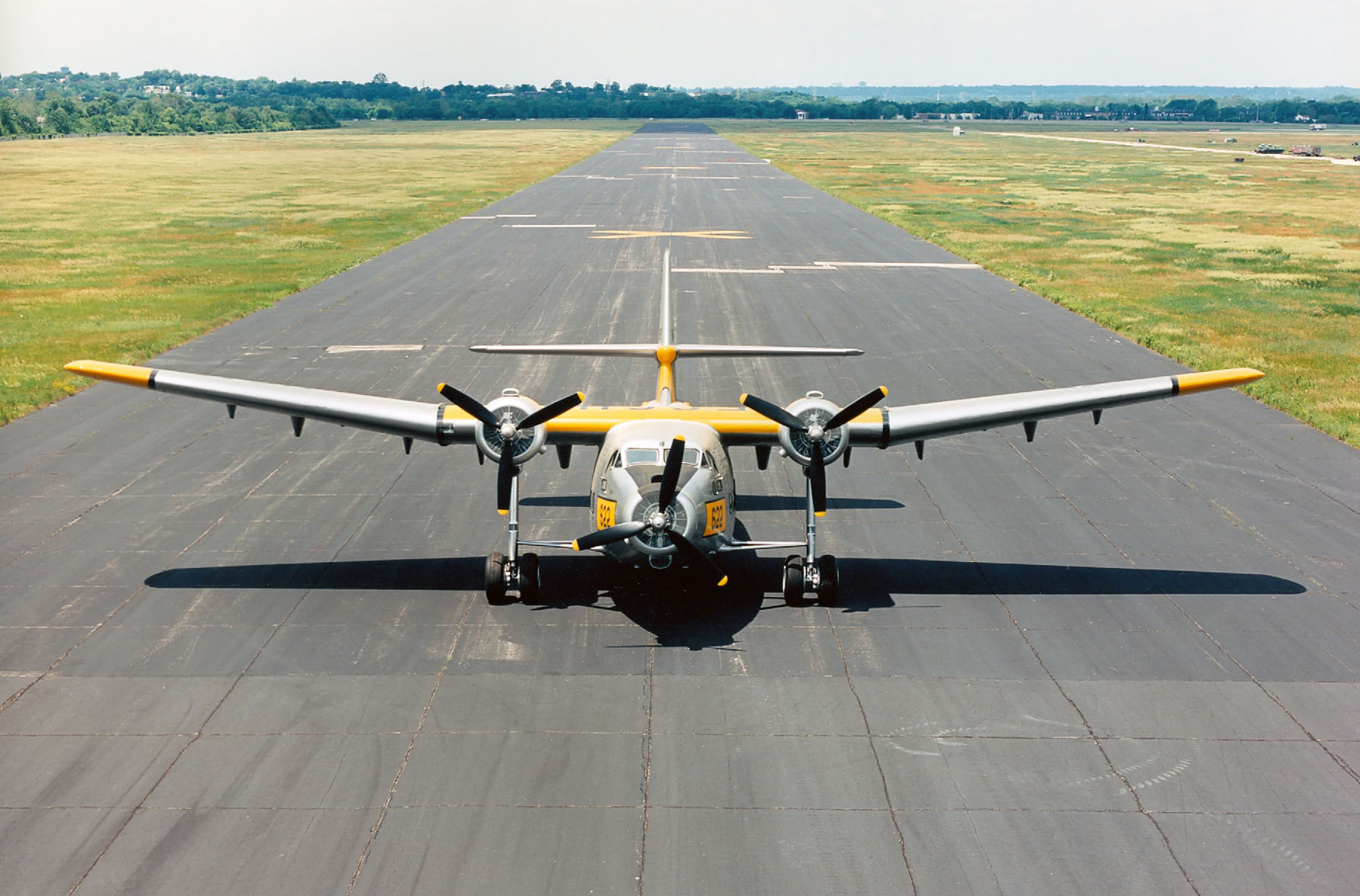 Front view of a Northrop YC-125B Raider.